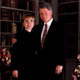 White House portrait Bill and Hillary Clinton, c. Christmas 1993 I think. From .